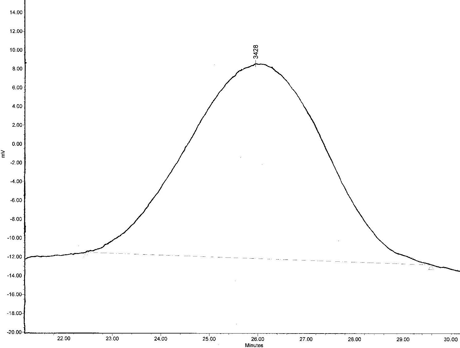 A GPC spectrum of the separation of of anionically synthesized polystyrene